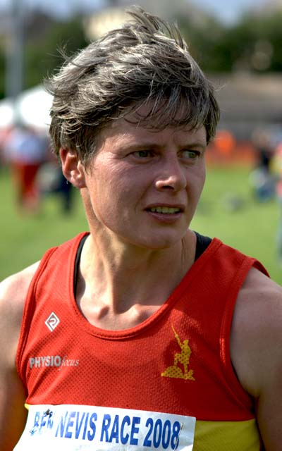 Head/shoulders shot of Angela Mudge after the 2008 Ben Nevis Race.